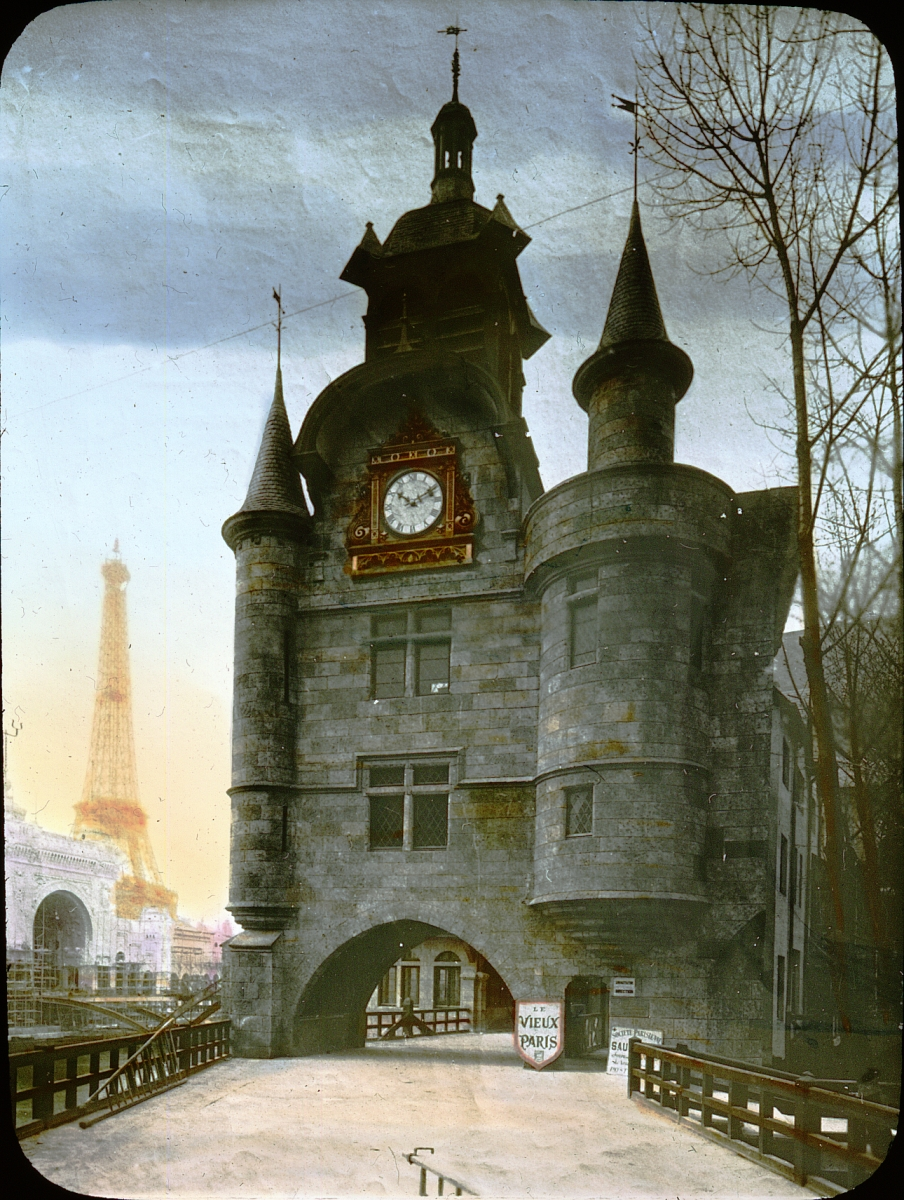 Paris Exposition: Vieux Paris (Old Paris), Paris, France, 1900. Vieux Paris: restoration of Old Paris Brooklyn Museum Archives.